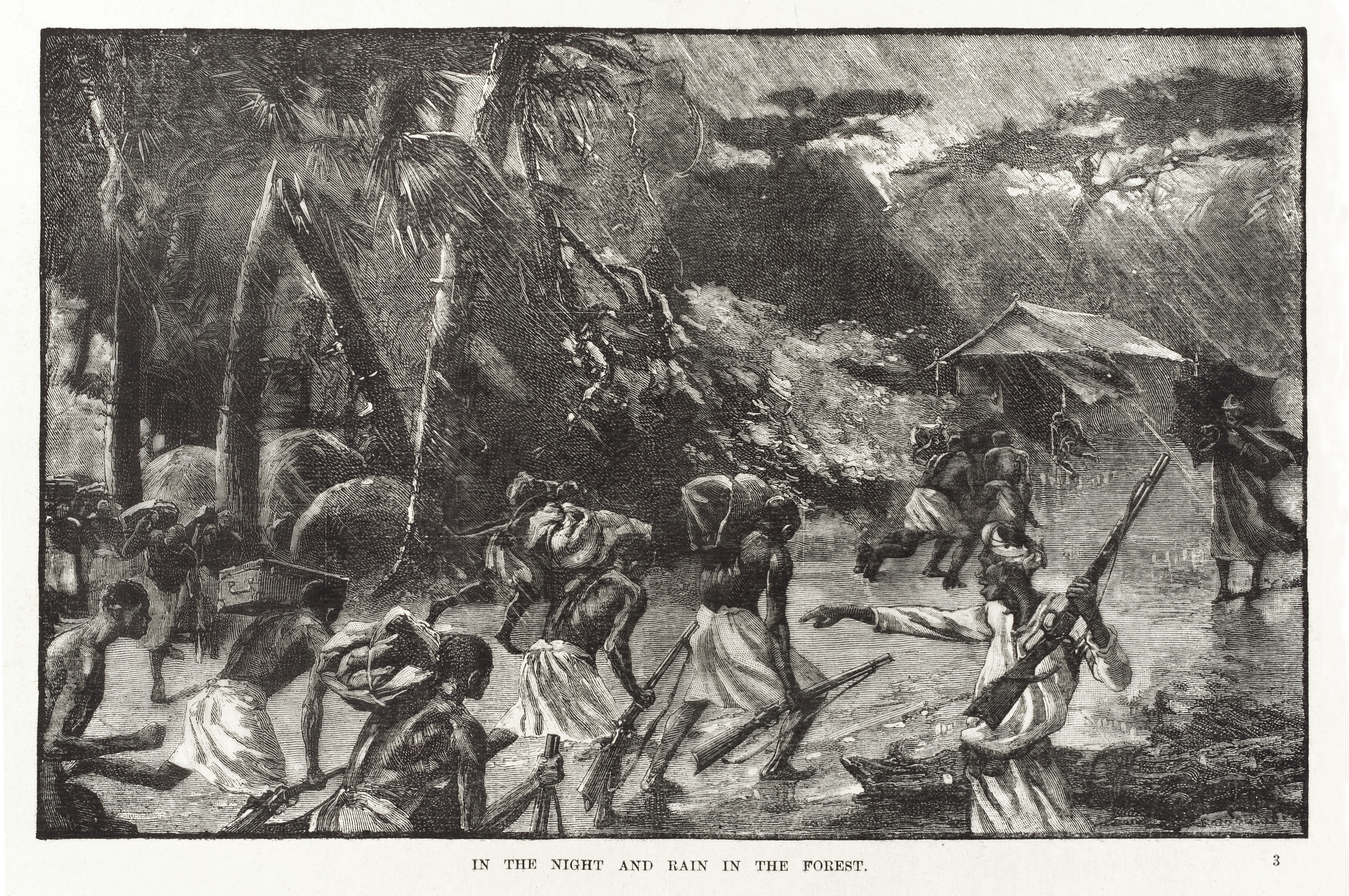 "In the night and the rain of the forest" A group of porters carring equipment and supplies through a storm during the night. General Collections Keywords: Weapons; Walking; Emil Pasha; Expedition; Travel; Henry Morton Stanley; Rain; Travels; Weather; Exploration; Emin Pasha Relief Expedition; J. D Cooper; Expeditions